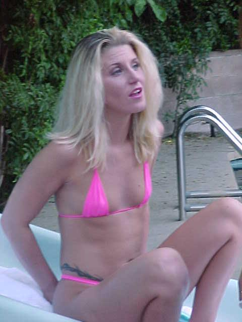 On set of Girl's Affair 58